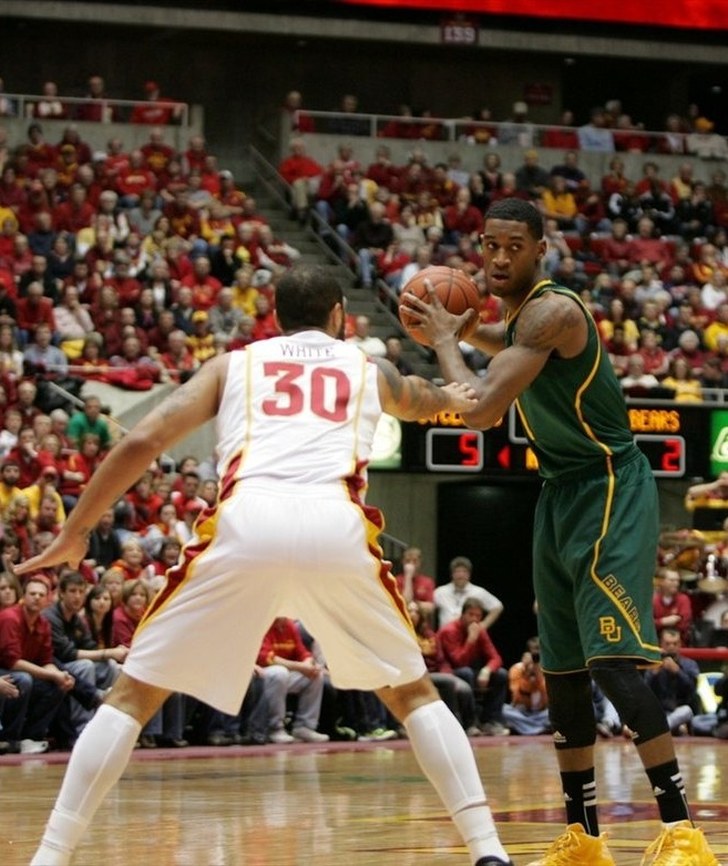 Royce White on March 3, 2012 defending Perry Jones III